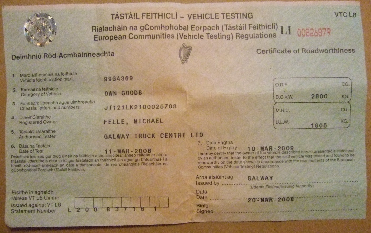 Irish road worthiness document for a van or truck. Thanks Kevin.